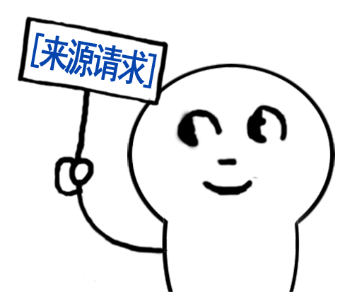 A Chinese sticker about citation needed.